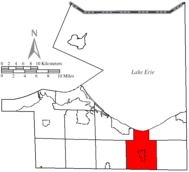 Made by the US Census and modified by myself